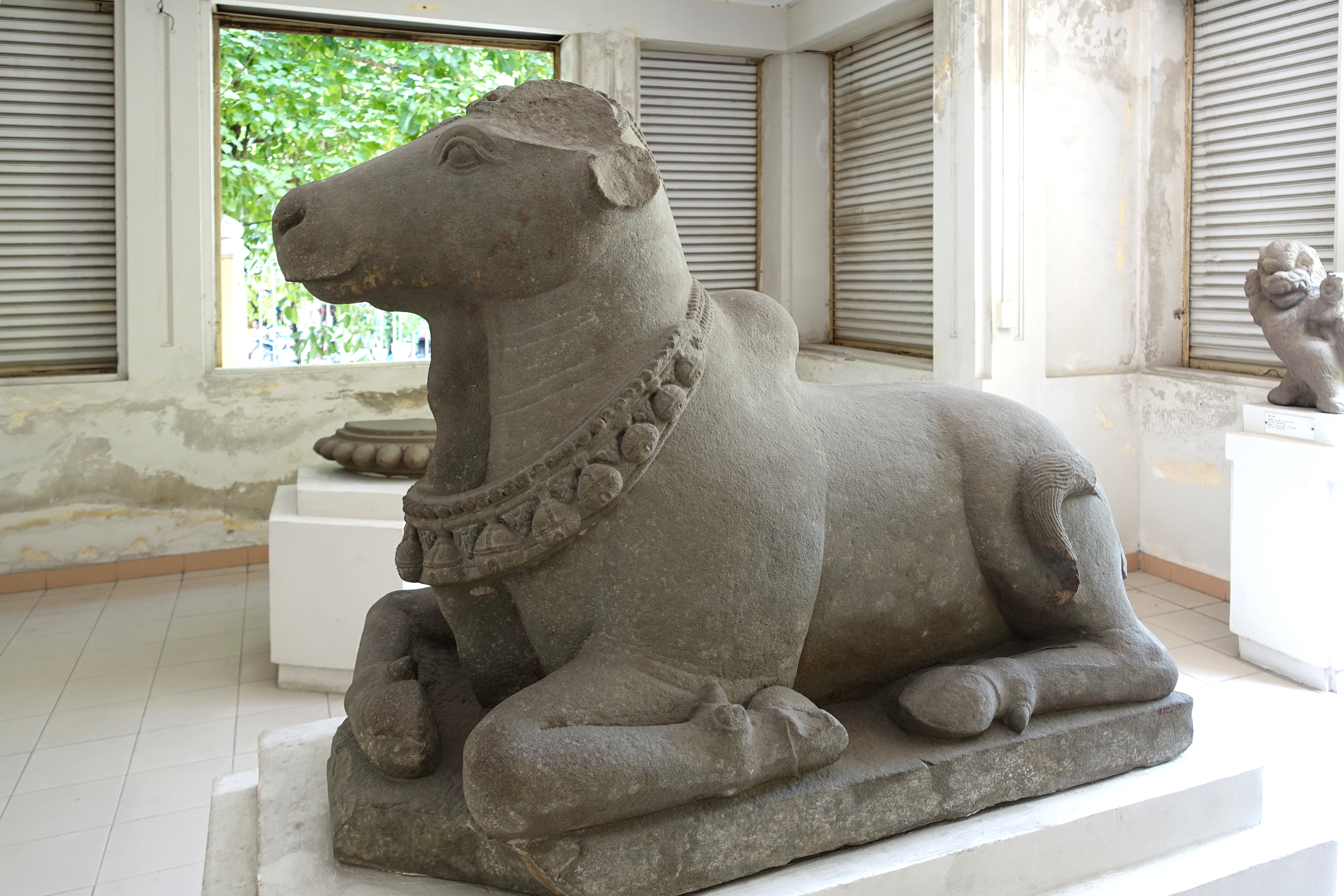 Cham sculpture at the Museum of Cham Sculpture, Da Nang, Vietnam. This artwork is in the public domain because the artist died more than 70 years ago.